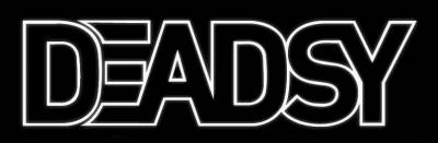 deadsylogo